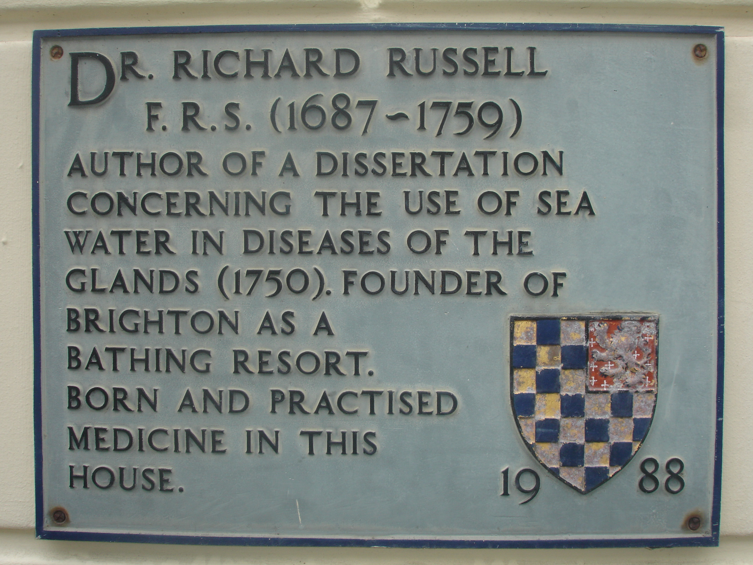 Dr. Richard Russell F.R.S. (1687-1759) Author of a dissertation concerning the use of sea water in diseases of the glands (1750). Founder of Brighton as a bathing resort. Born and practised medicine in this house. 1988